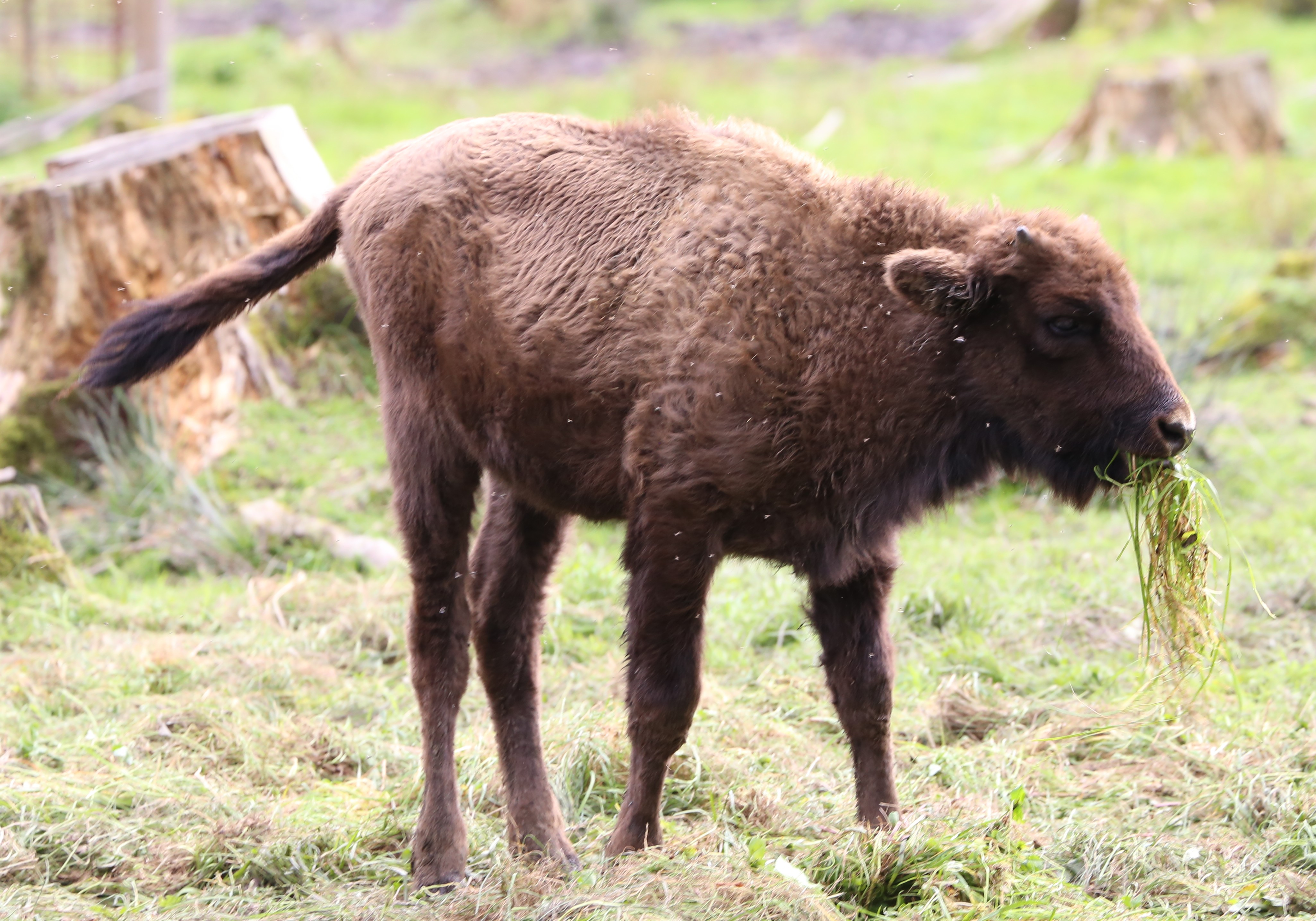 Wisent (Bison bonasus) im Wildpark Poing